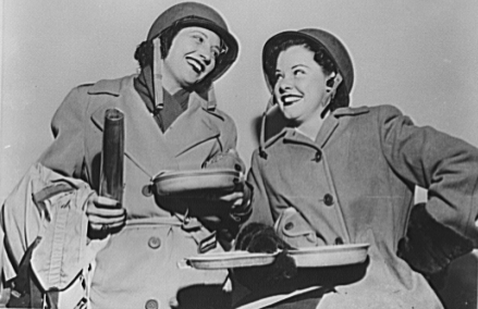 back from entertaining American troops in the British Isles and Africa, pose in the costumes they wore while traveling. They formed half a United Service Organization (USO) camp overseas unit, with Carole Landis and Martha Raye